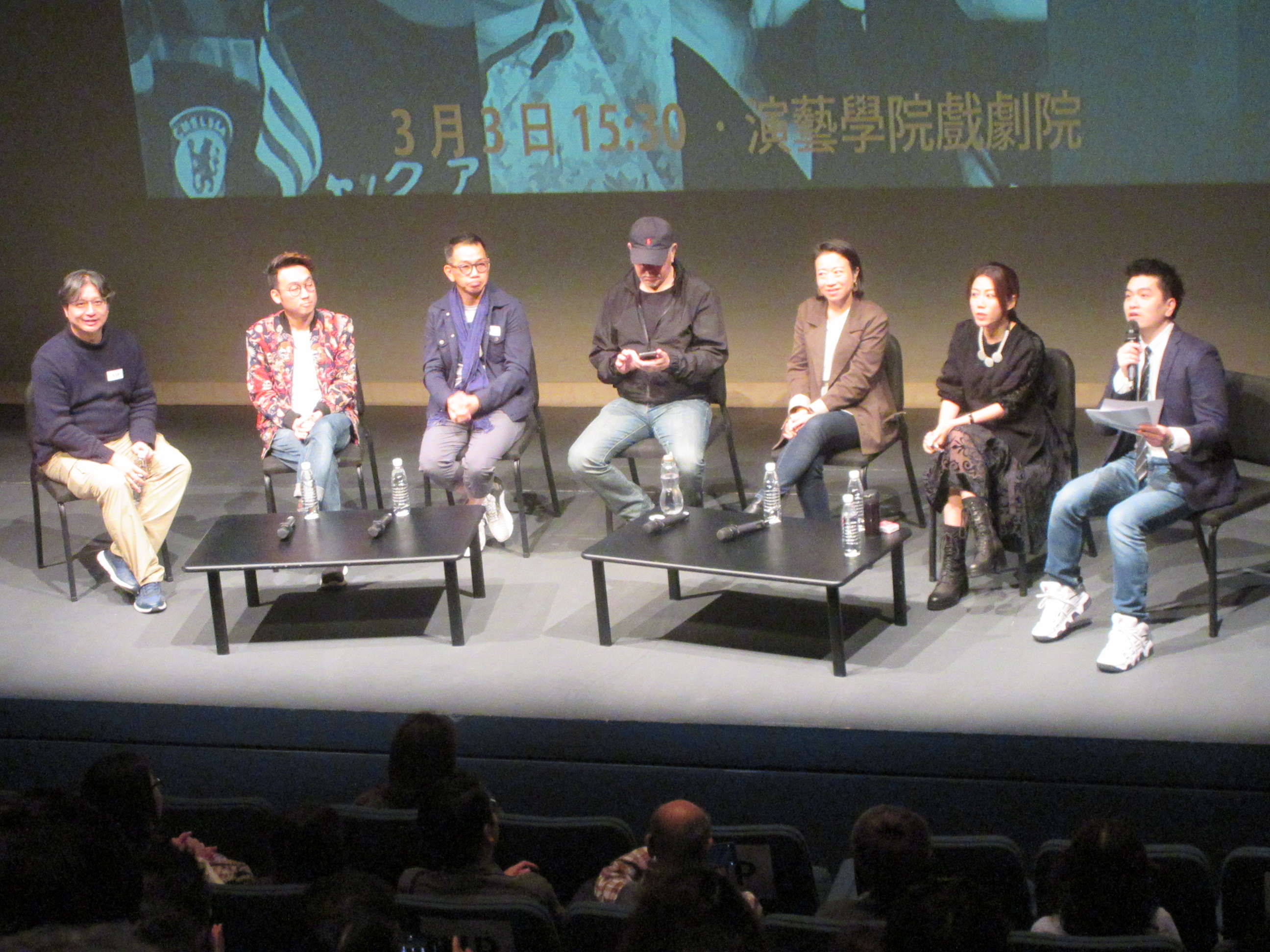 HK WC 灣仔 Wan Chai 香港演藝學院 HKAPA Campus 開放日 Open Day talk Tsang Tsui Shan March 2019